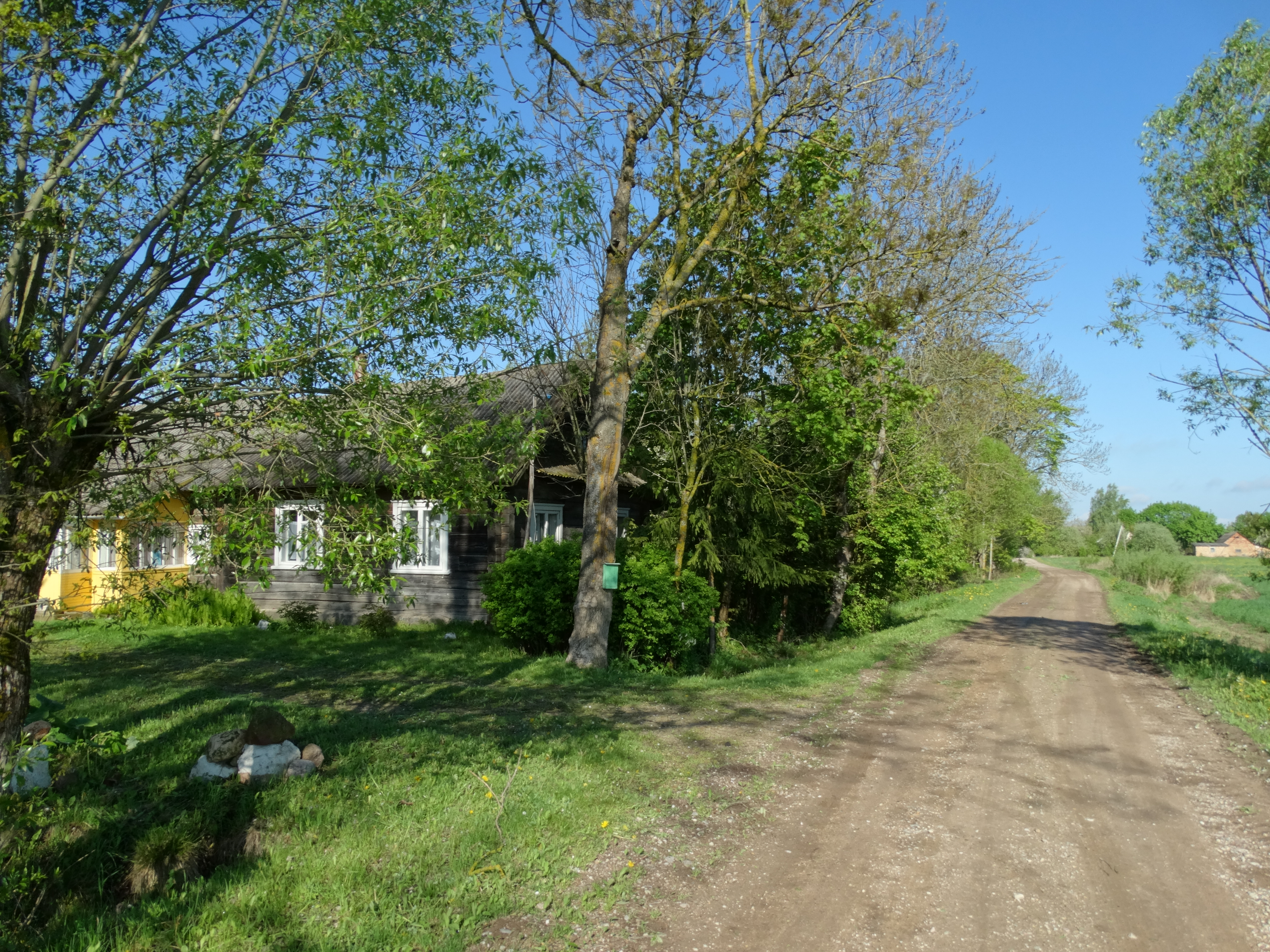 Kunigiškiai, Anykščiai District, Lithuania